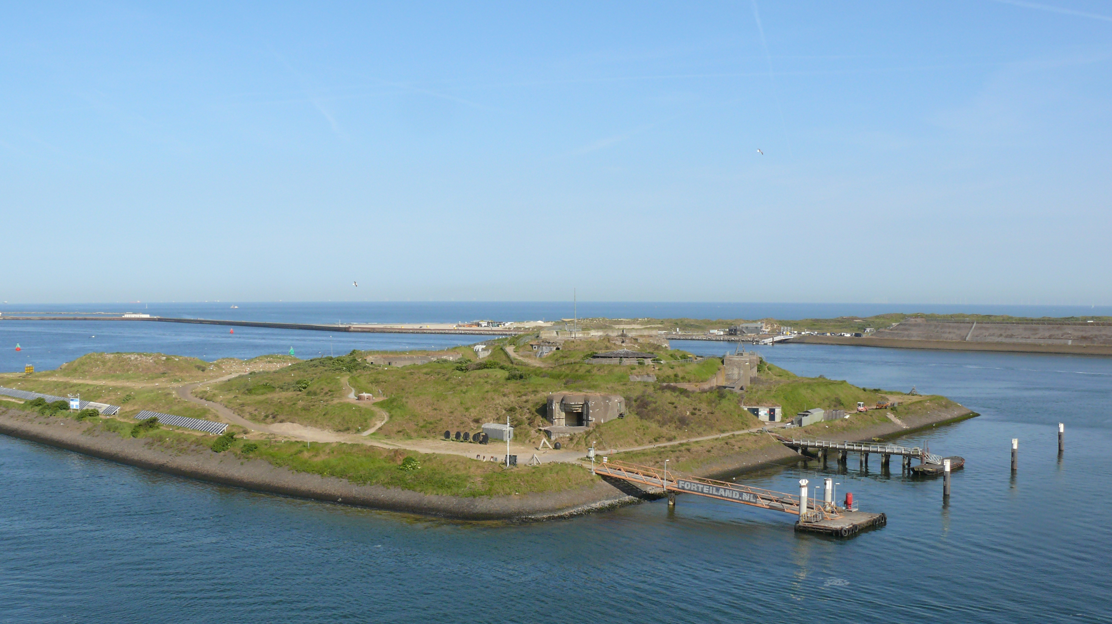 The Fortress at IJmuiden, at the mouth of the North Sea Canal, better known as Fortress island, was a part of the Amsterdam defences.